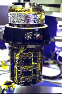 Gas Chromatograph Mass Spectrometer-instrument from Huygens